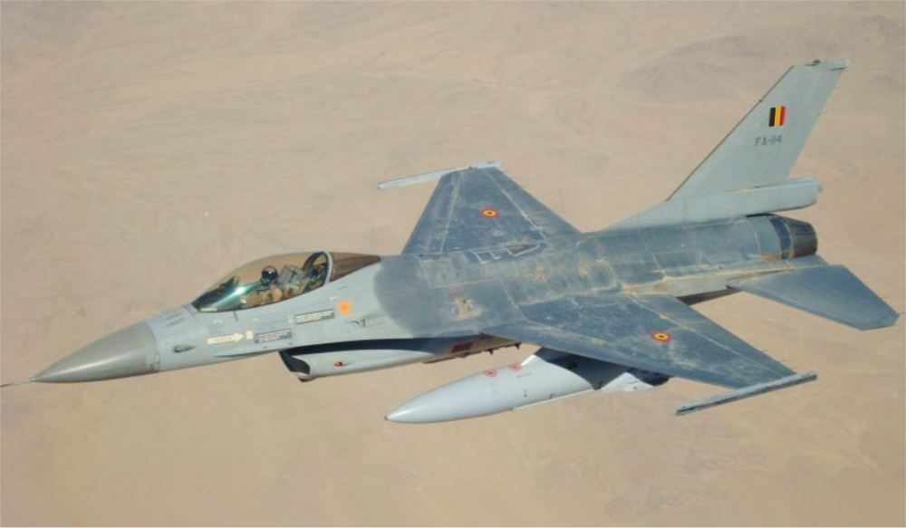 A Belgian Armed Forces F-16 Fighting Falcon aircraft flies near Kandahar Airfield, Kandahar province, Afghanistan, Oct. 7, 2013. Belgian forces have participated in Operation Guardian Falcon in support of the International Security Assistance Force since September 2008.